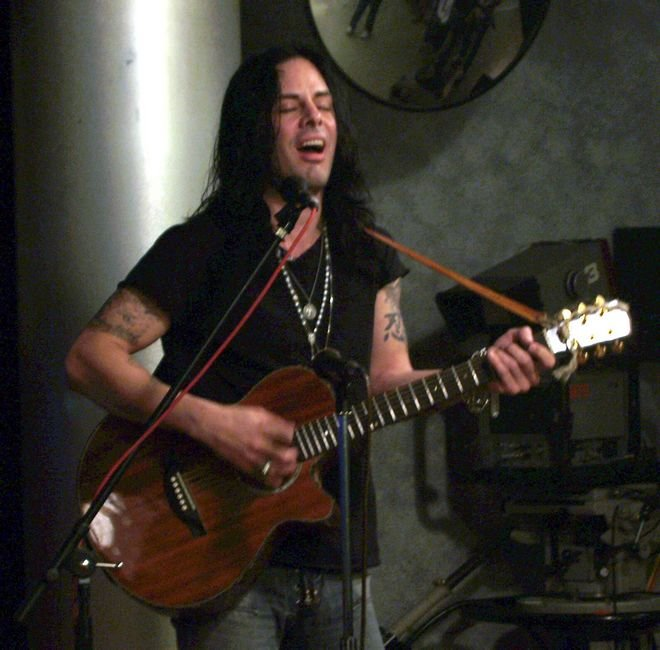 Richie Kotzen, formerly with the rock group Poison